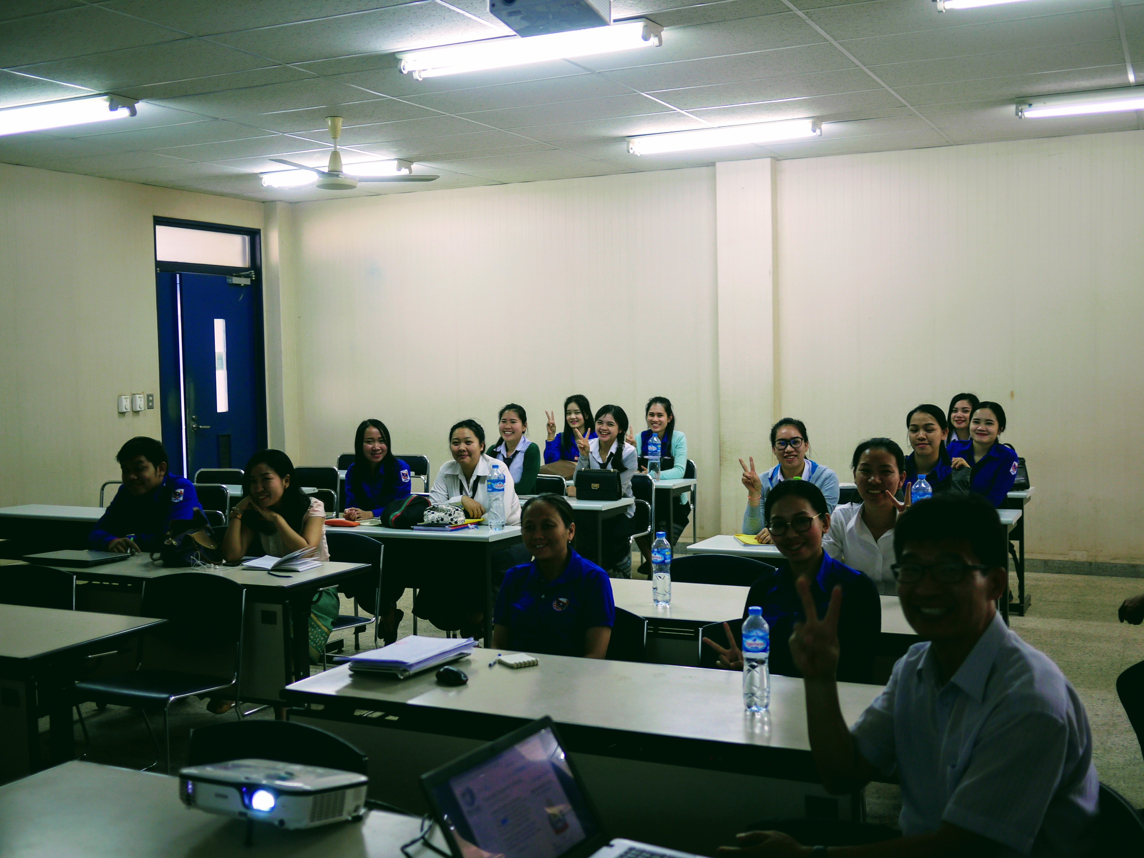 NUOL students at Wikipedia workshop